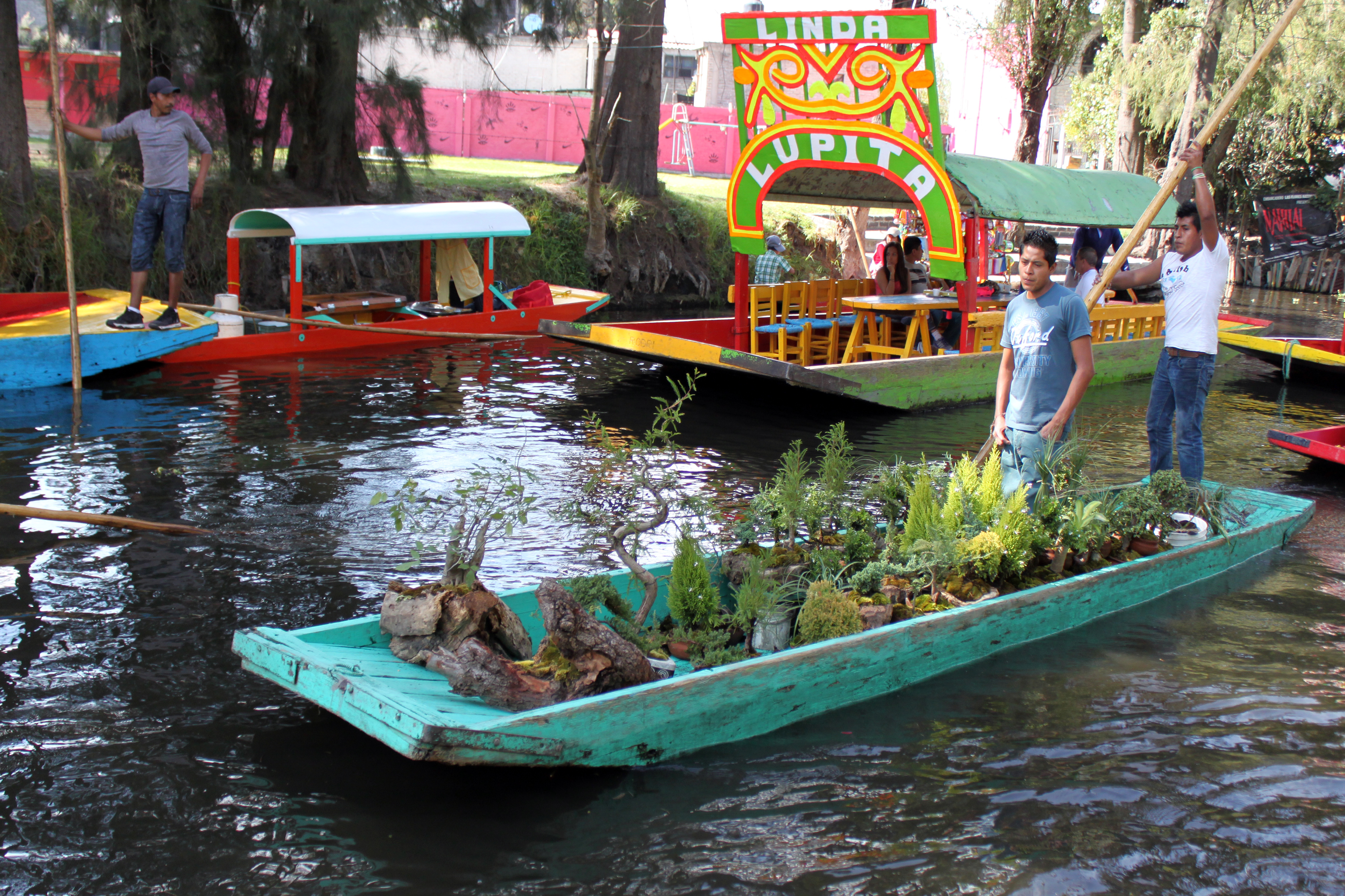 The floating gardens of Xochimilco, Mexico City